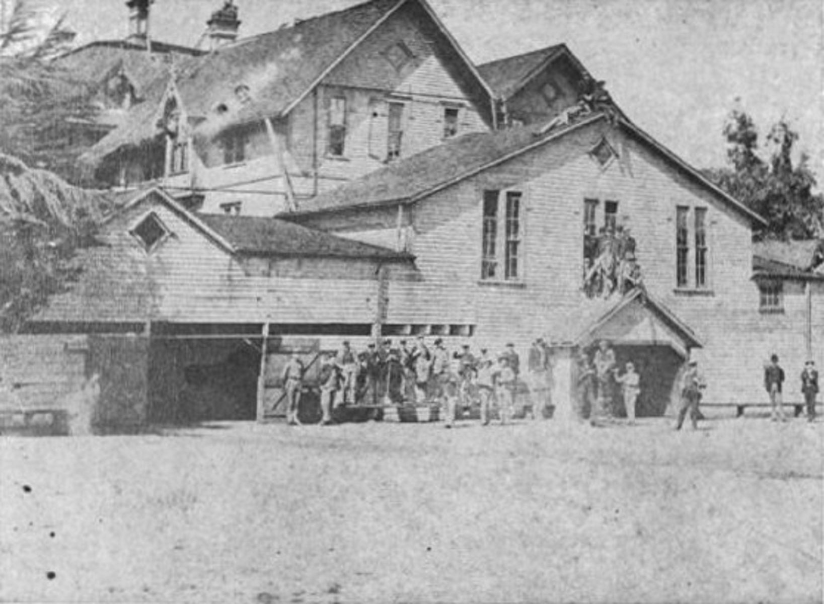 St. Matthews Military Academy, San Mateo, California, in the 1880s.